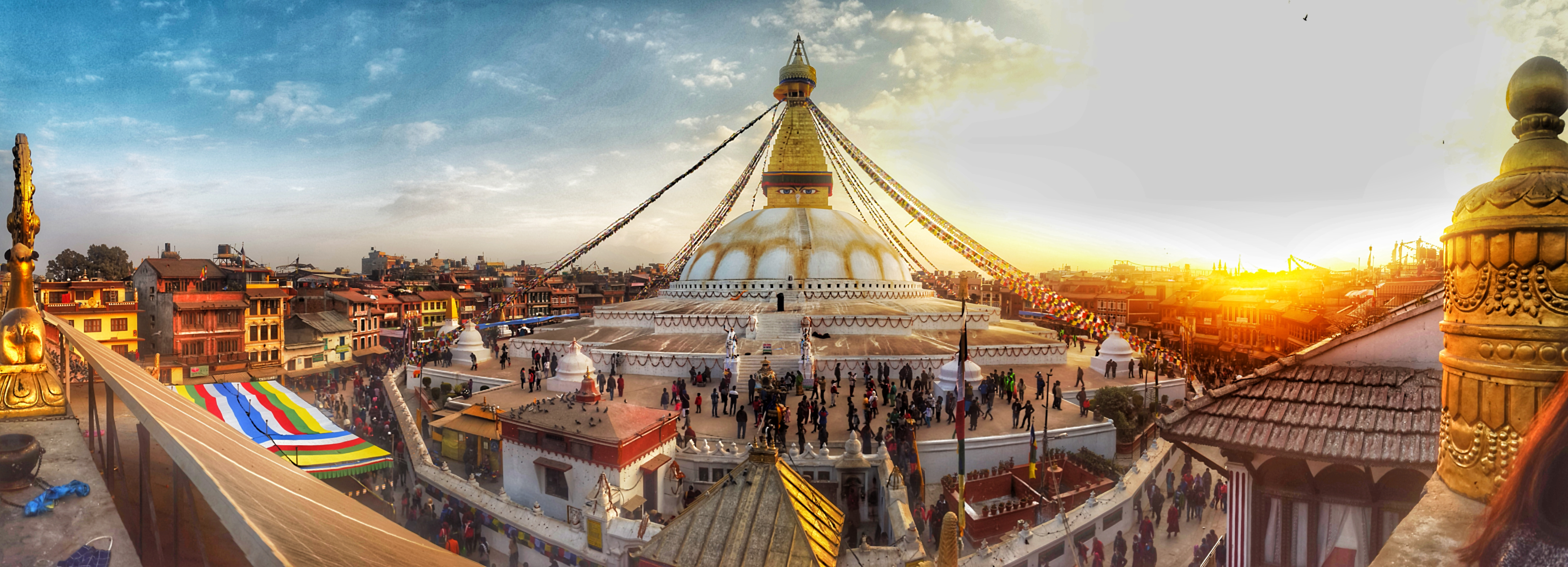 Boudhanath Panorama 2016